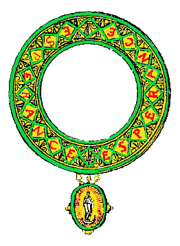 Collar of Order of Notre-Dame du Chardon _ France - 1370